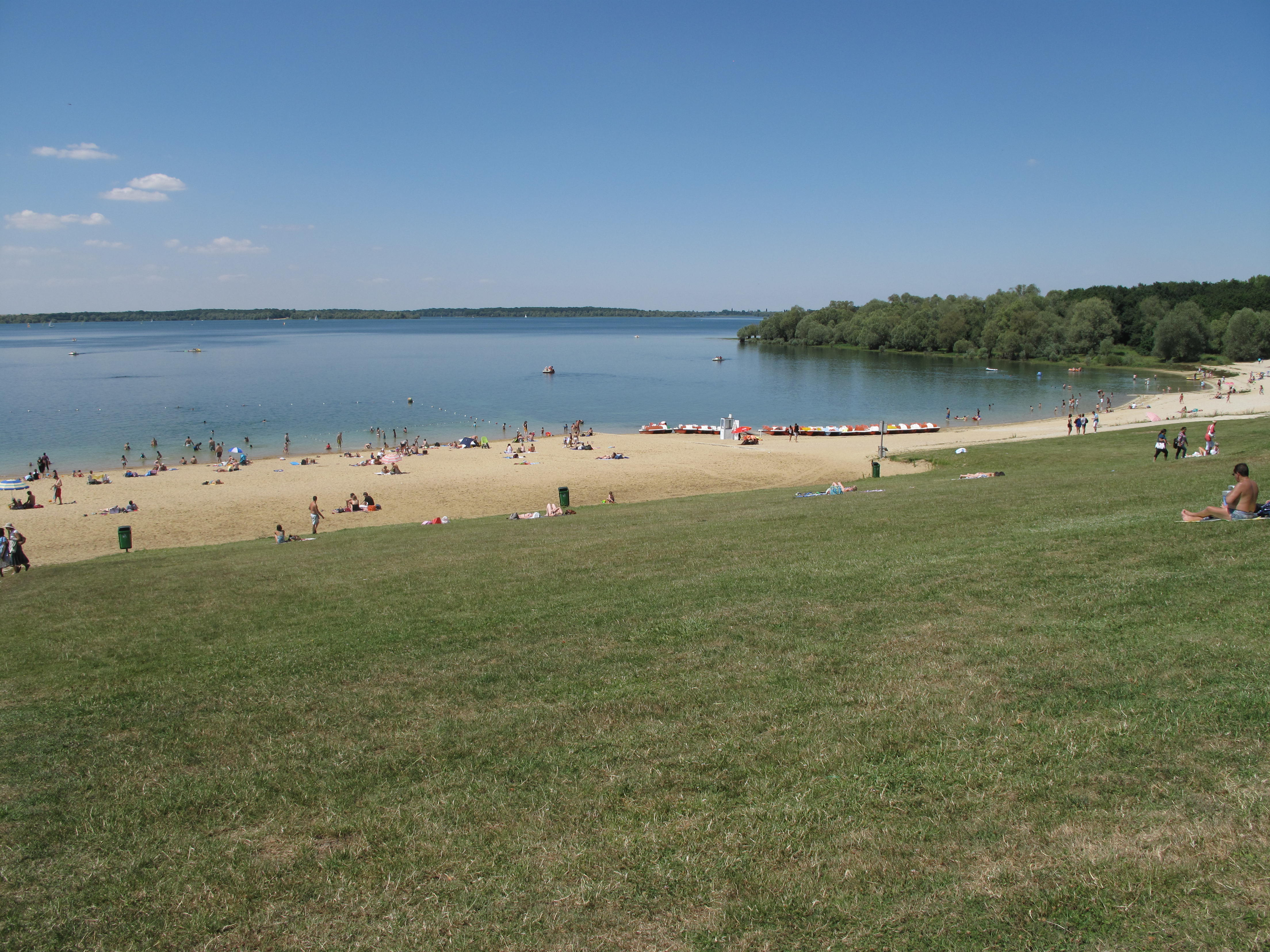 Beach on the lake of Orient at the Mesnil-Saint-Père (Aube, France).